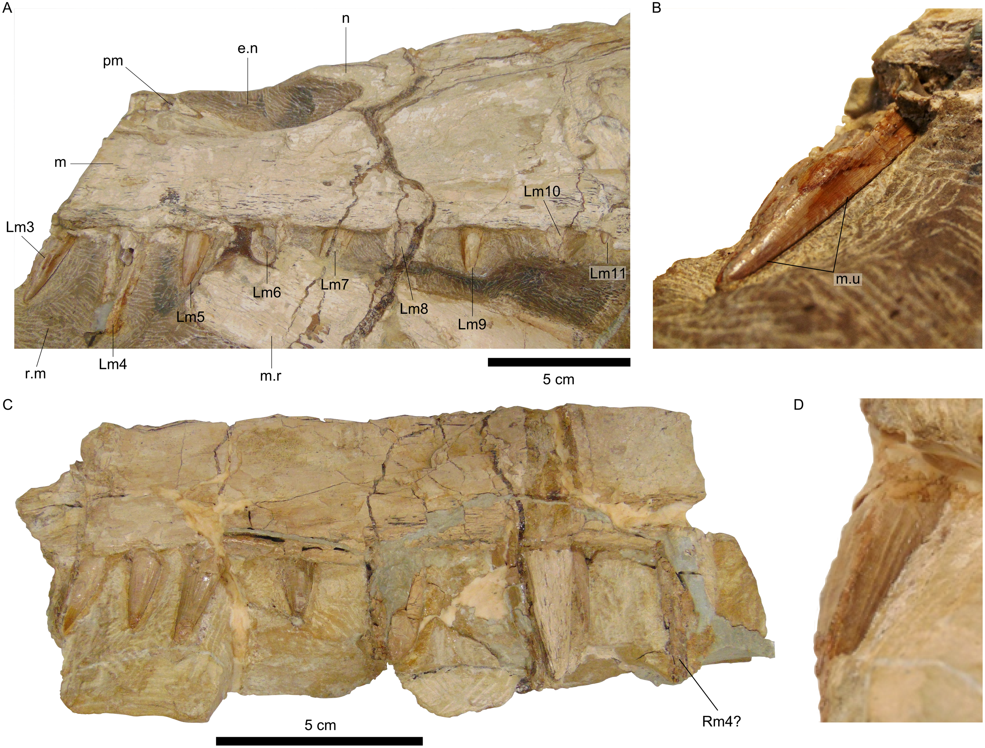 Dentition of Irritator challengeri. A, Detail of the left maxillary tooth row. B, Detail of the first tooth crown preserved in situ of the left maxilla. C, Detail of the artificially detached fragment of the right maxilla bearing the right maxillary tooth row. D, Detail of the sixth tooth crown preserved in situ of the right maxilla in mesial view. Abbreviations for teeth follow Hendrickx et al. [58]. Additional abbreviations: e.n, external naris; m, maxilla; m.r, mandibular ramus; m.u, marginal undulations; n, nasal; pm, premaxilla; r.m, rock matrix.